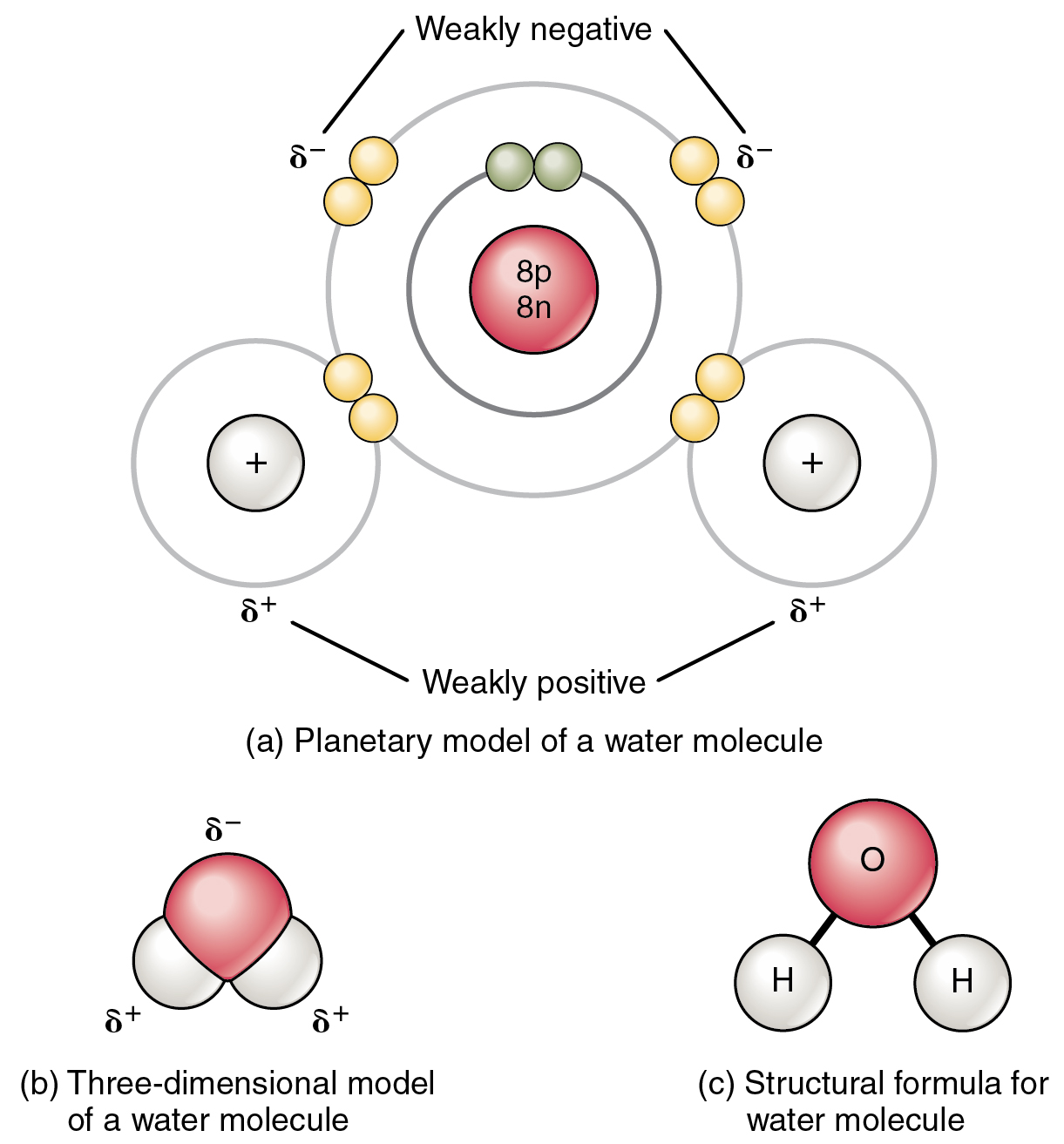 Illustration from Anatomy & Physiology, Connexions Web site. Jun 19, 2013.